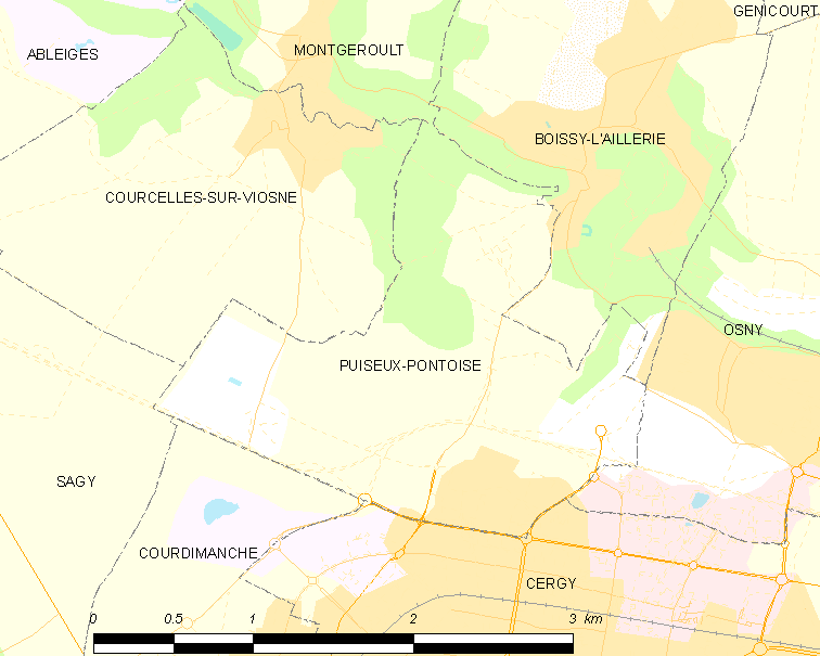 Map of French municipality Puiseux-Pontoise